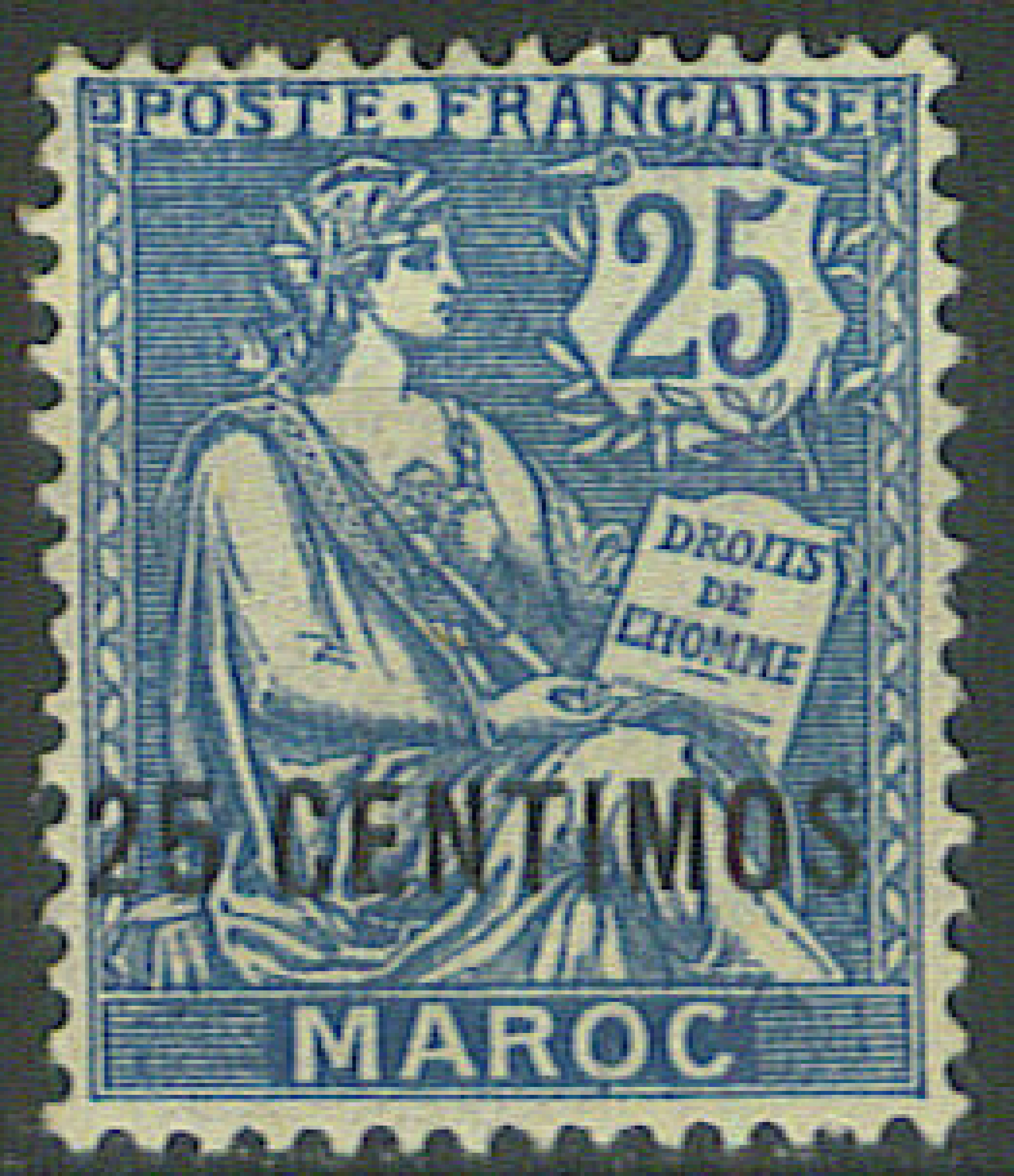 France Postal Agency In Morocco 1903 25 centimes surcharged 25 centimos